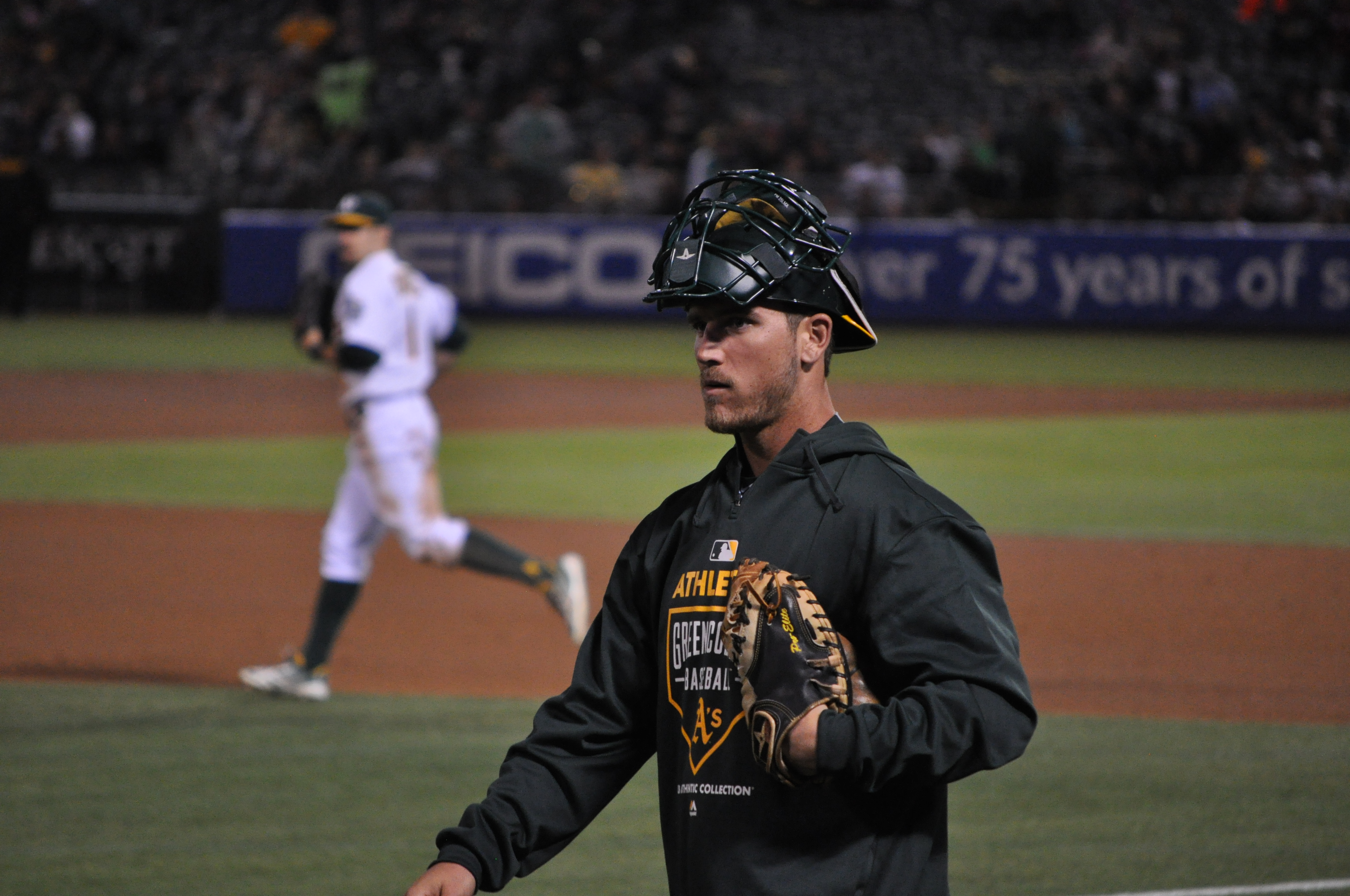 Carson Blair in the A's bullpen, 9-4-15